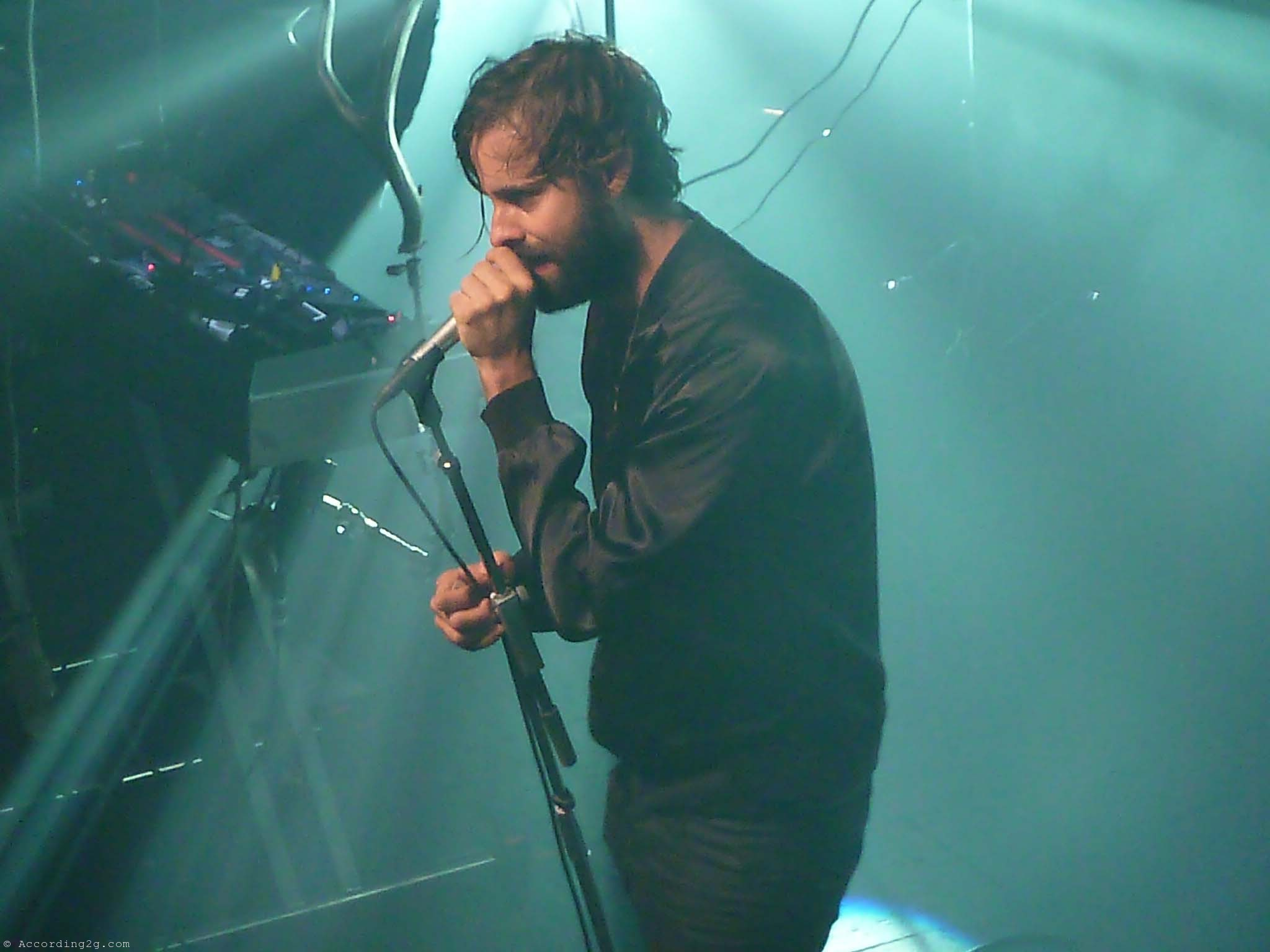 Musician Andrew Wyatt performs with Miike Snow at the Nokia Theater in Los Angeles